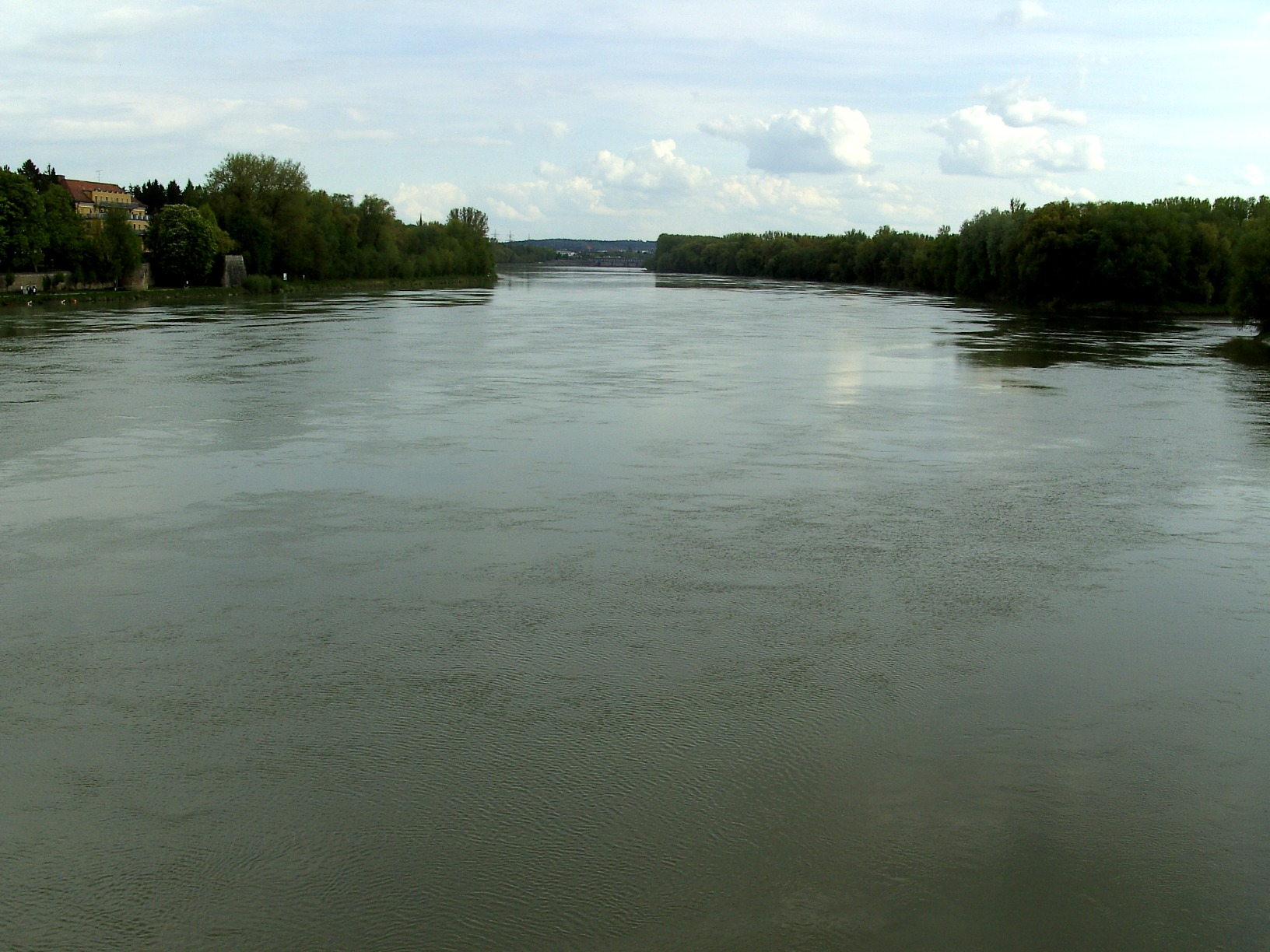 The River Inn in the Innviertel.